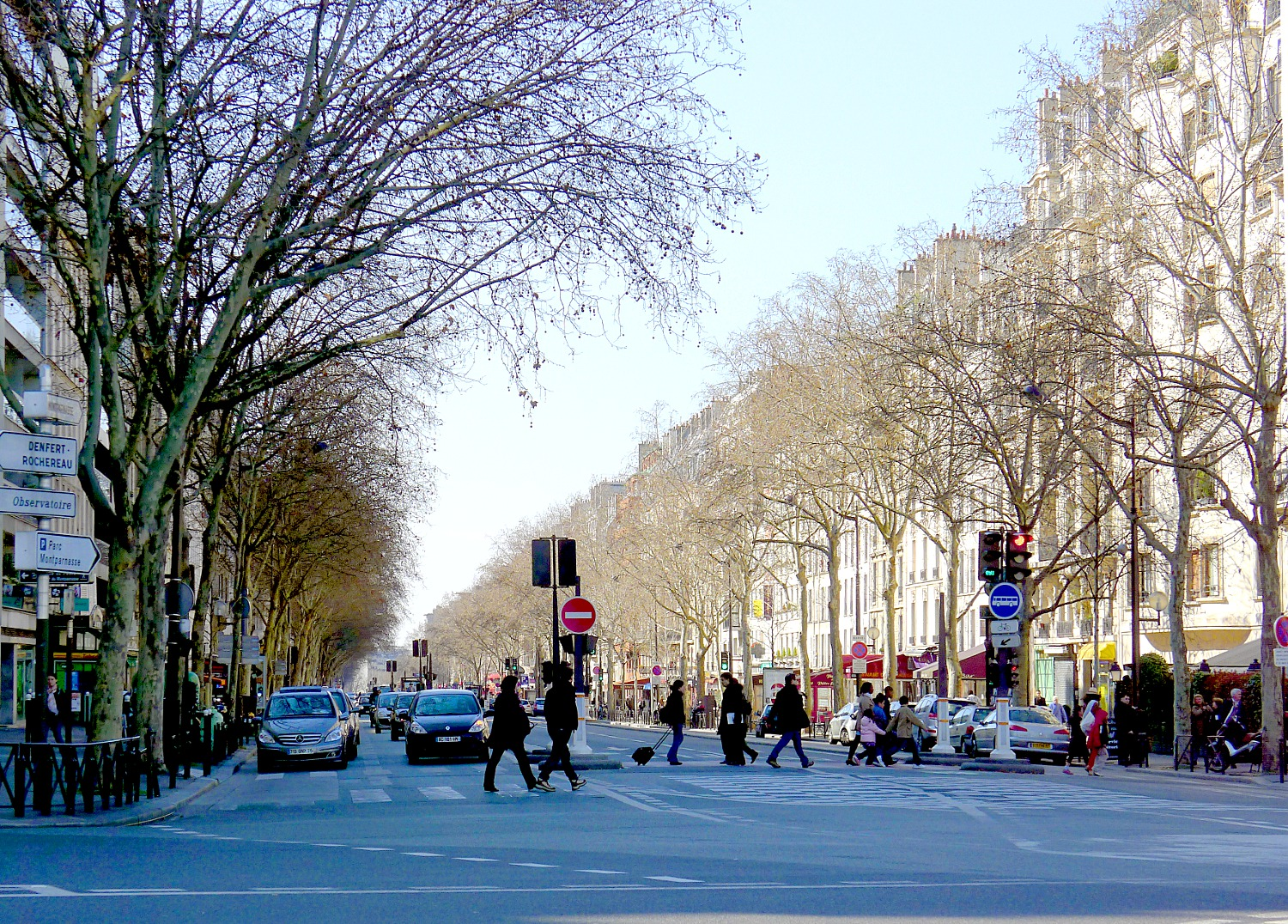 Montparnasse boulevard - Paris